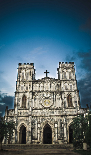 church